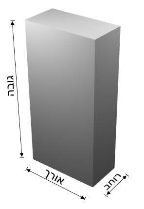 This image shows the dimensions length, width and height. All my own work. This is now public domain work. Feel free. --Dhatfield 11:03, 3 August 2007 (UTC)